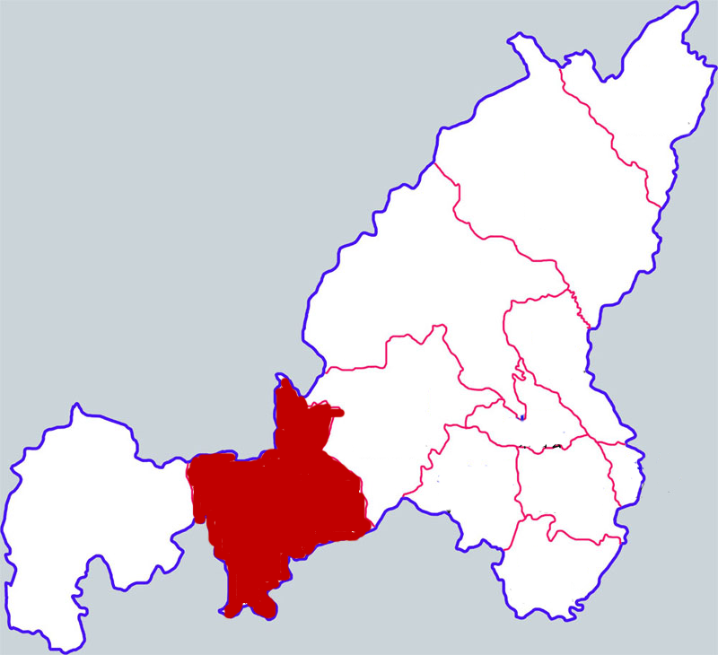 Location of Jingbian county in Yulin city, Shaanxi province, China